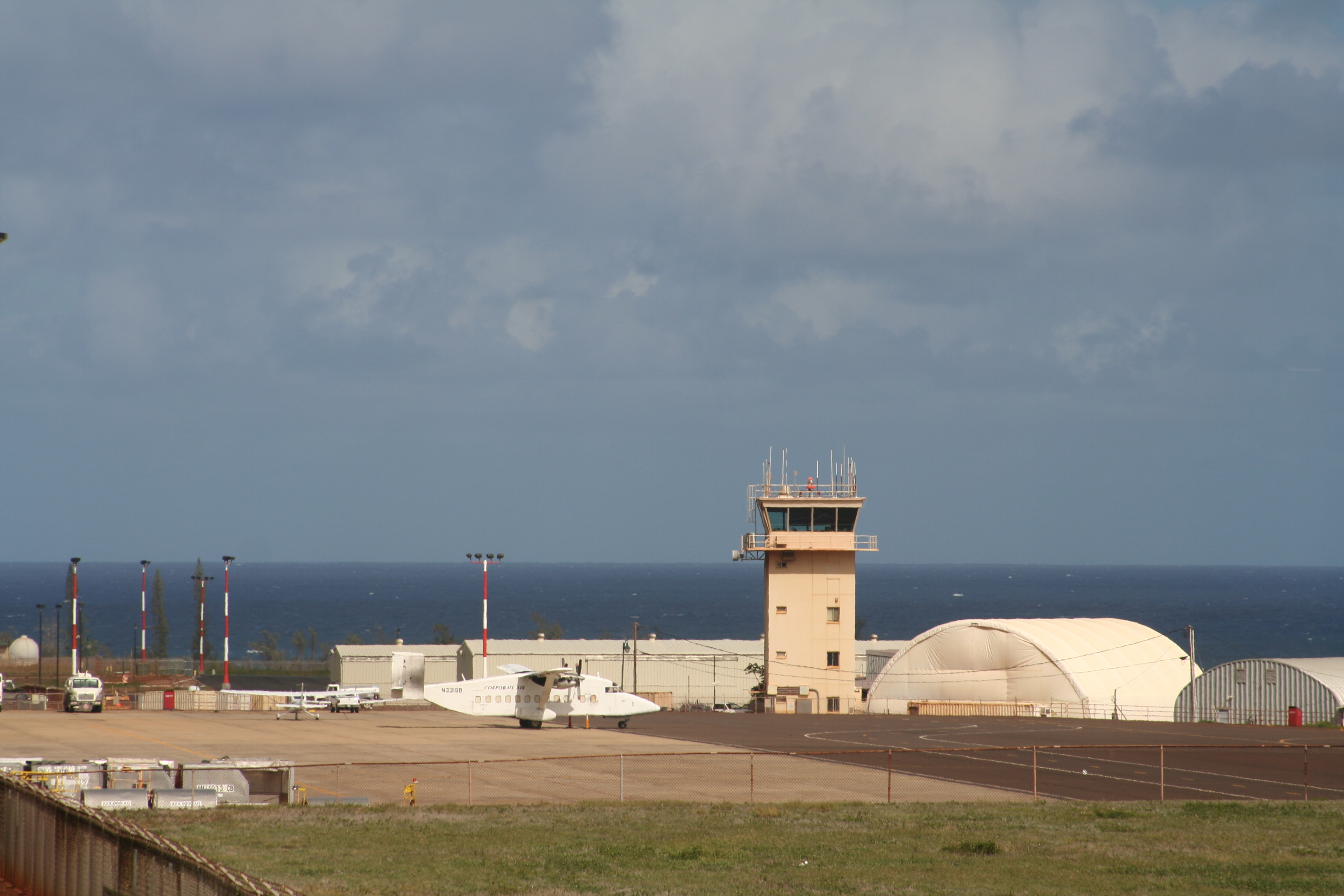 The ATC tower at Lihue Airport (LIH), Kauai, Hawaii.